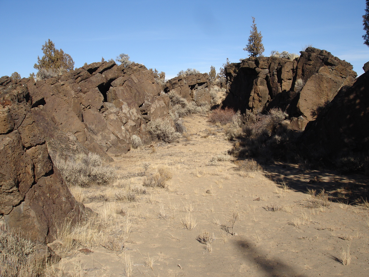 A tumuli's moat partially filled with ash sand from Mt. Mazama.